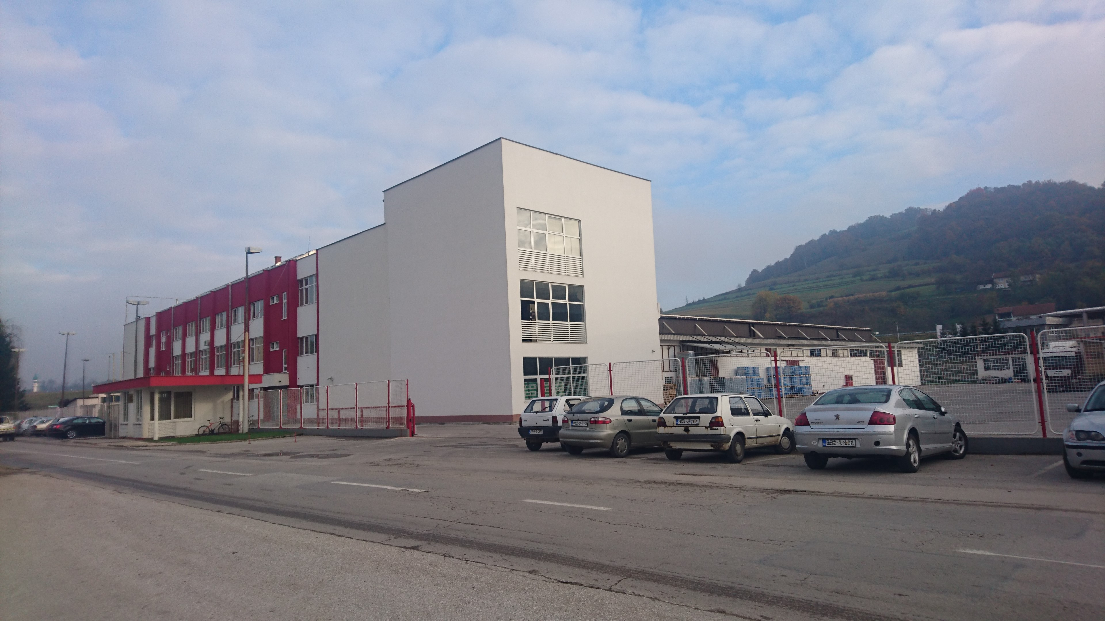 The factory of the bosnian company Vispak in Visoko.